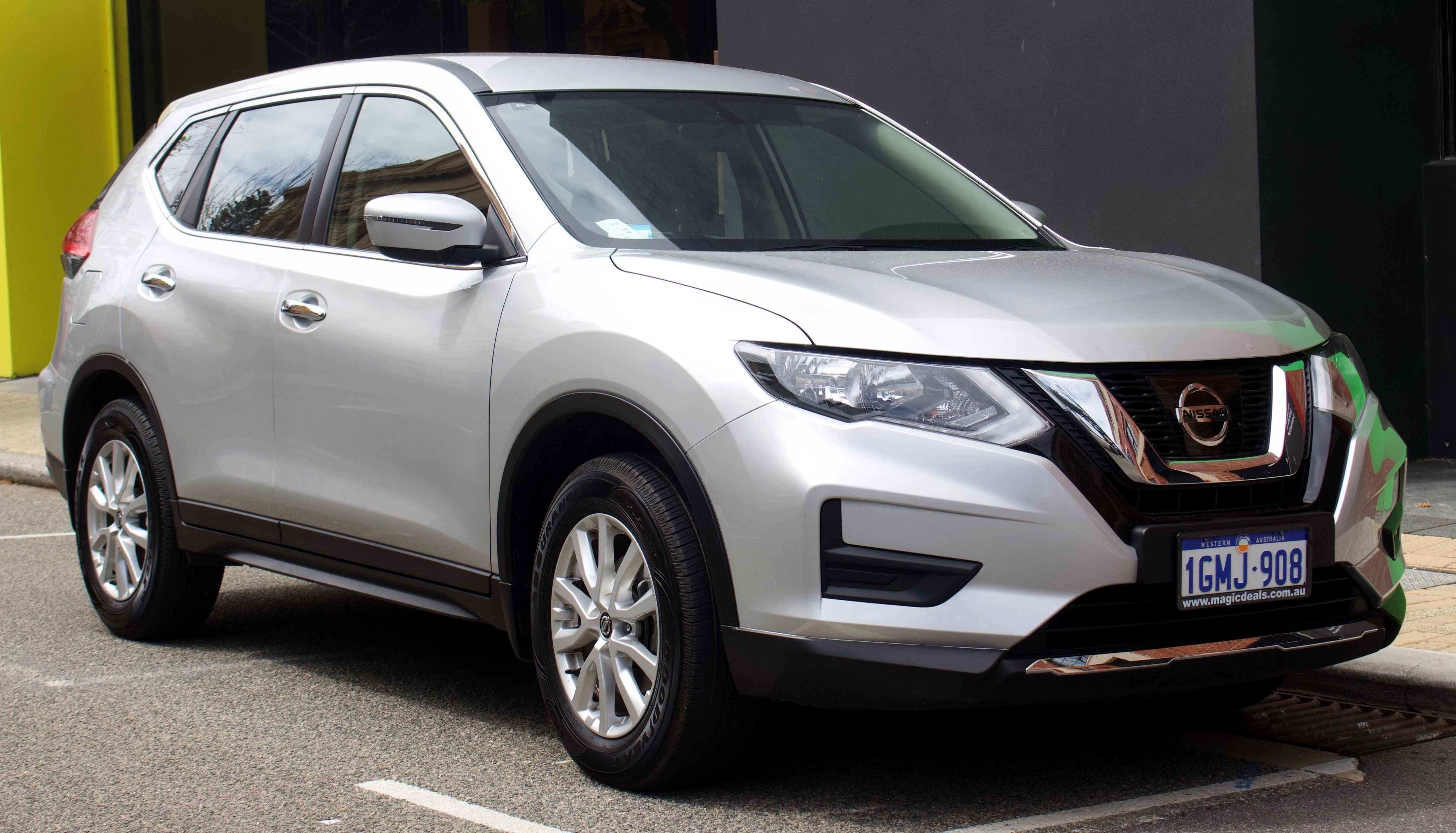 2018 Nissan X-Trail (T32) ST wagon. Photographed in Fremantle, Western Australia, Australia.